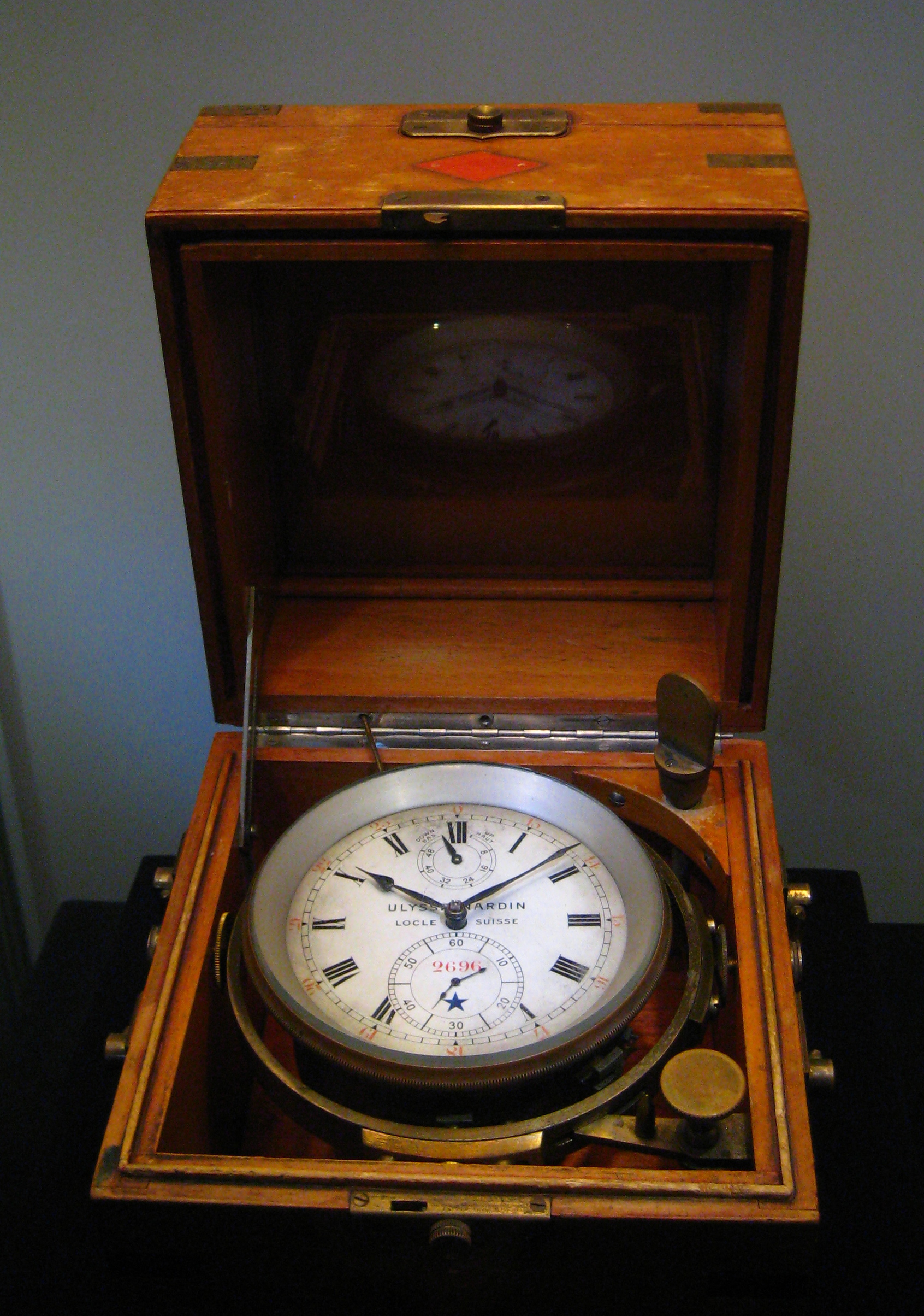 Deck chronometer, Ulysse Nardin. Switzerland. 1930. Official rating certificate issued by the Neuchatel office of the Astronomy and Chronometry Observatory. Steel, wood, glass. Musee Prive Ulysse Nardin